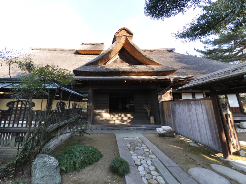 Ando old private house Main building